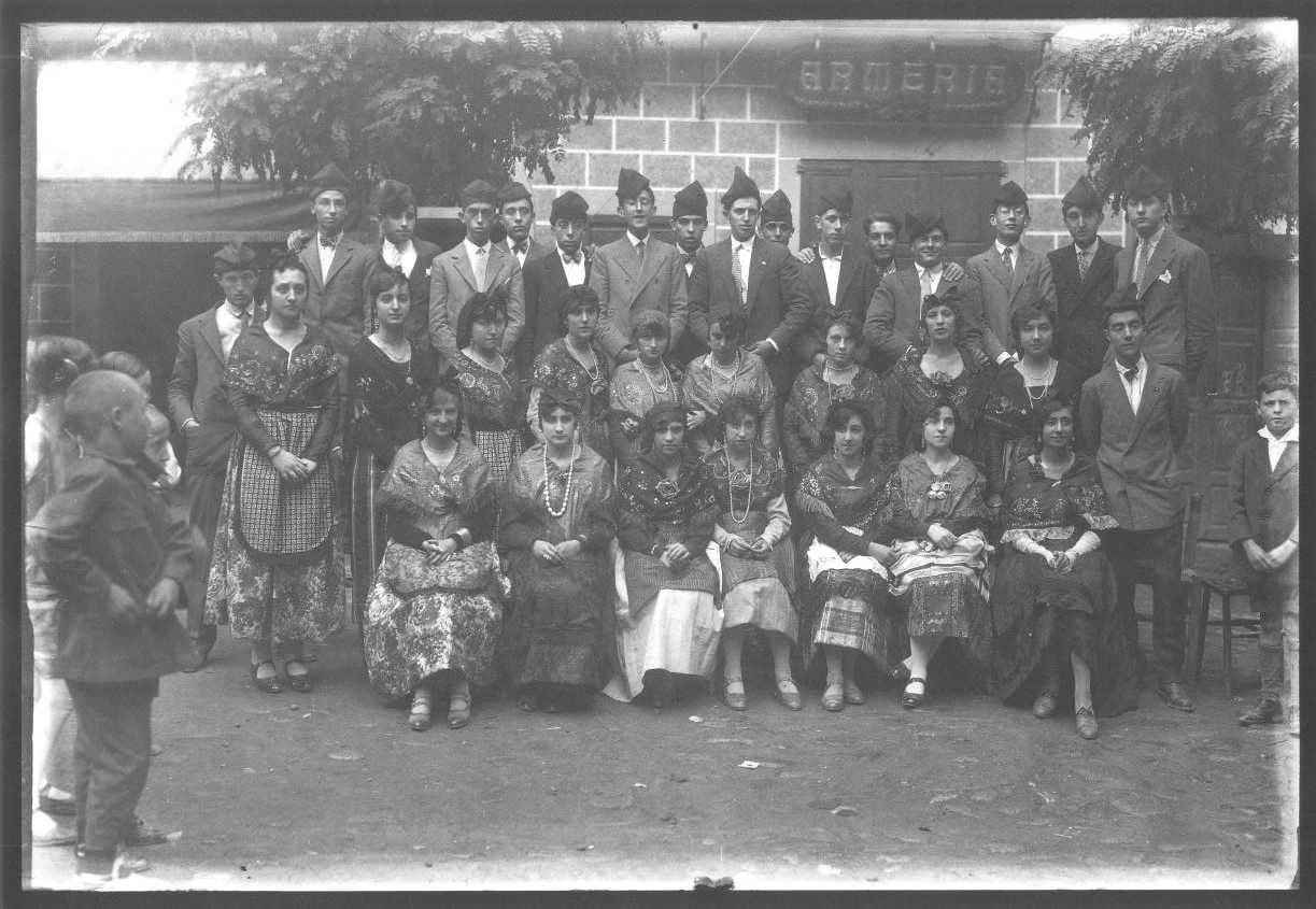 Dansaires del ball Cerdà, l'any 1930.